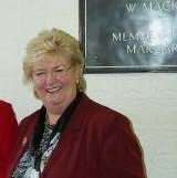 I took it, it belongs to me, and anyone is free to use it.